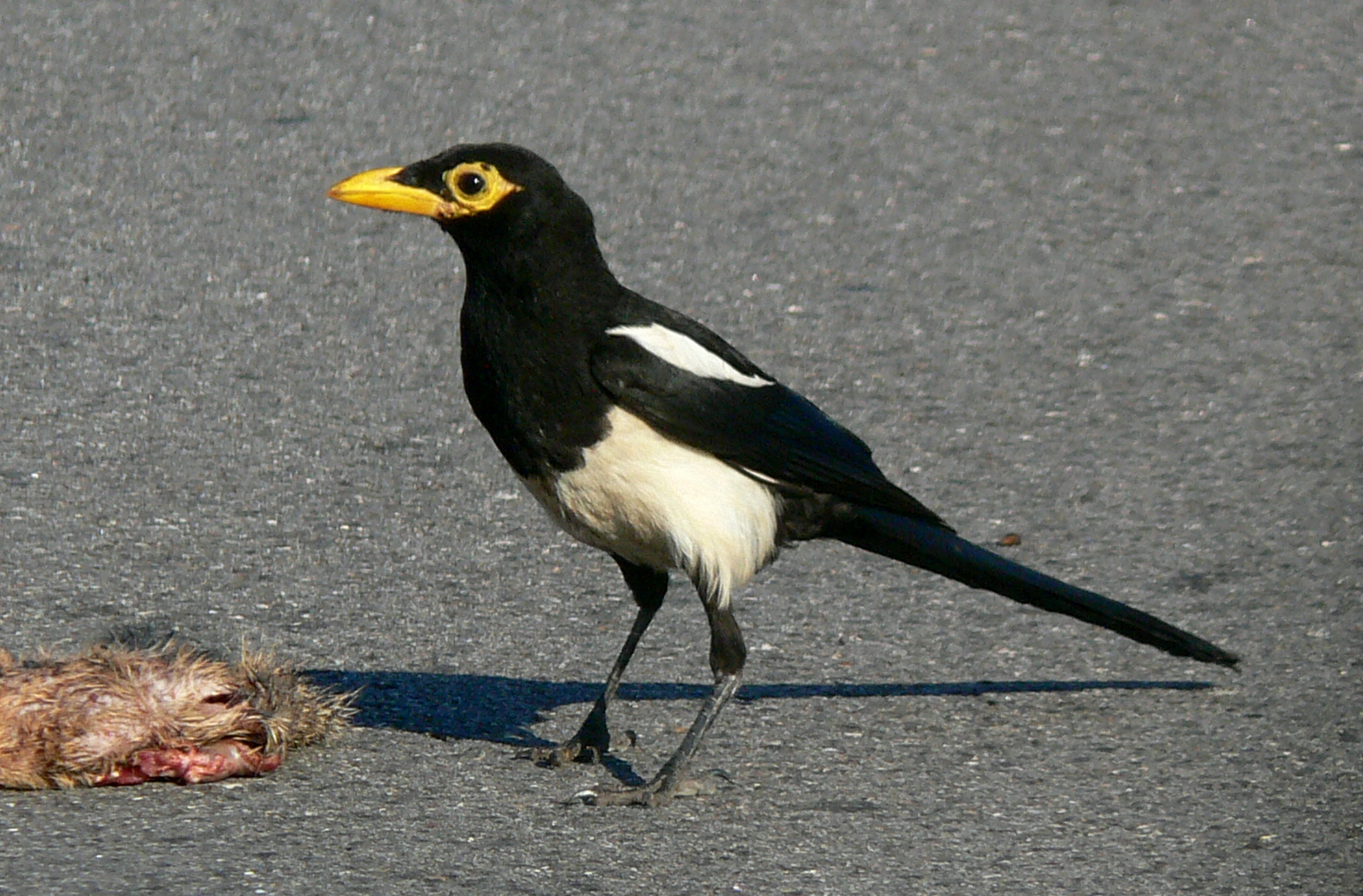 Pica nuttalli with roadkill at Pozo Road, San Luis Obispo Co., California, USA 35° 17' 54"N 120° 24' 29"W